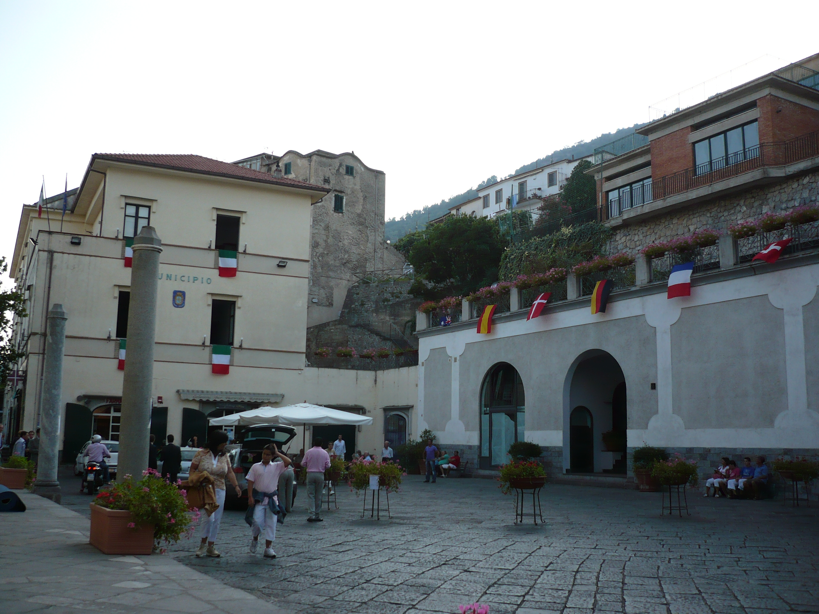 Main square of Scala, in the Amalfi Coast, with the city hall on the left.